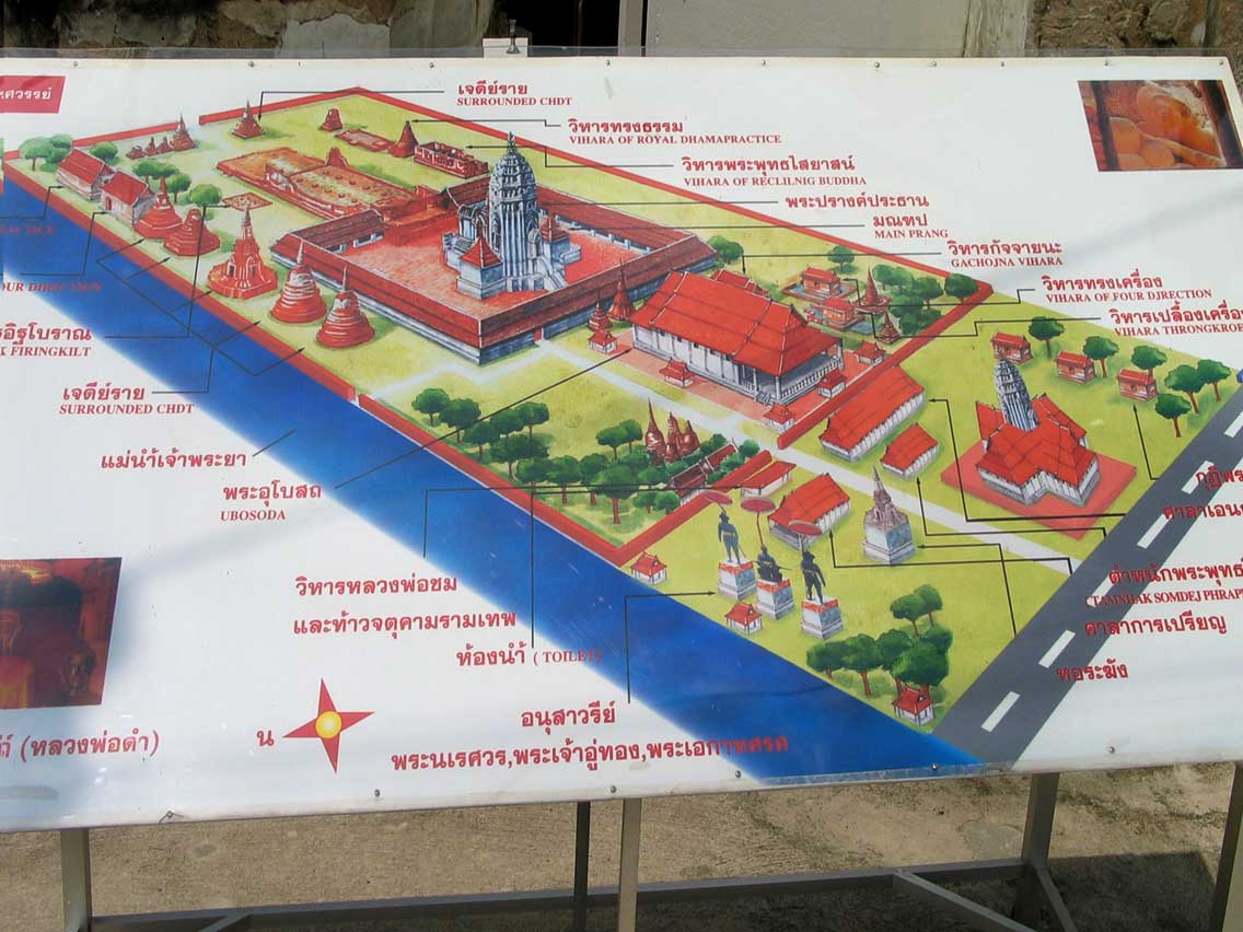 Plan of Wat Puttha Sawan, Ayutthaya, Thailand.